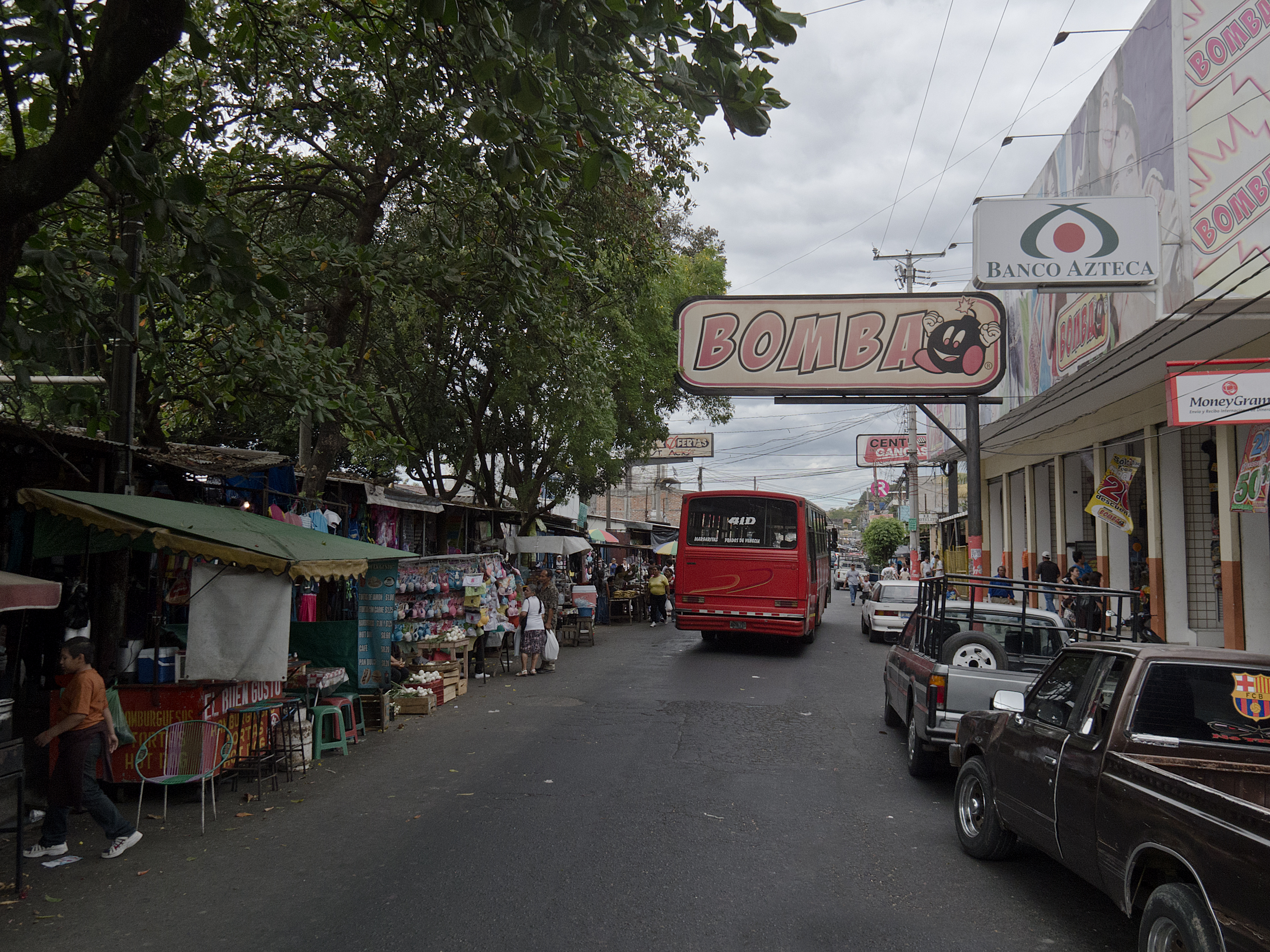 Streets of Soyapango, El Salvador